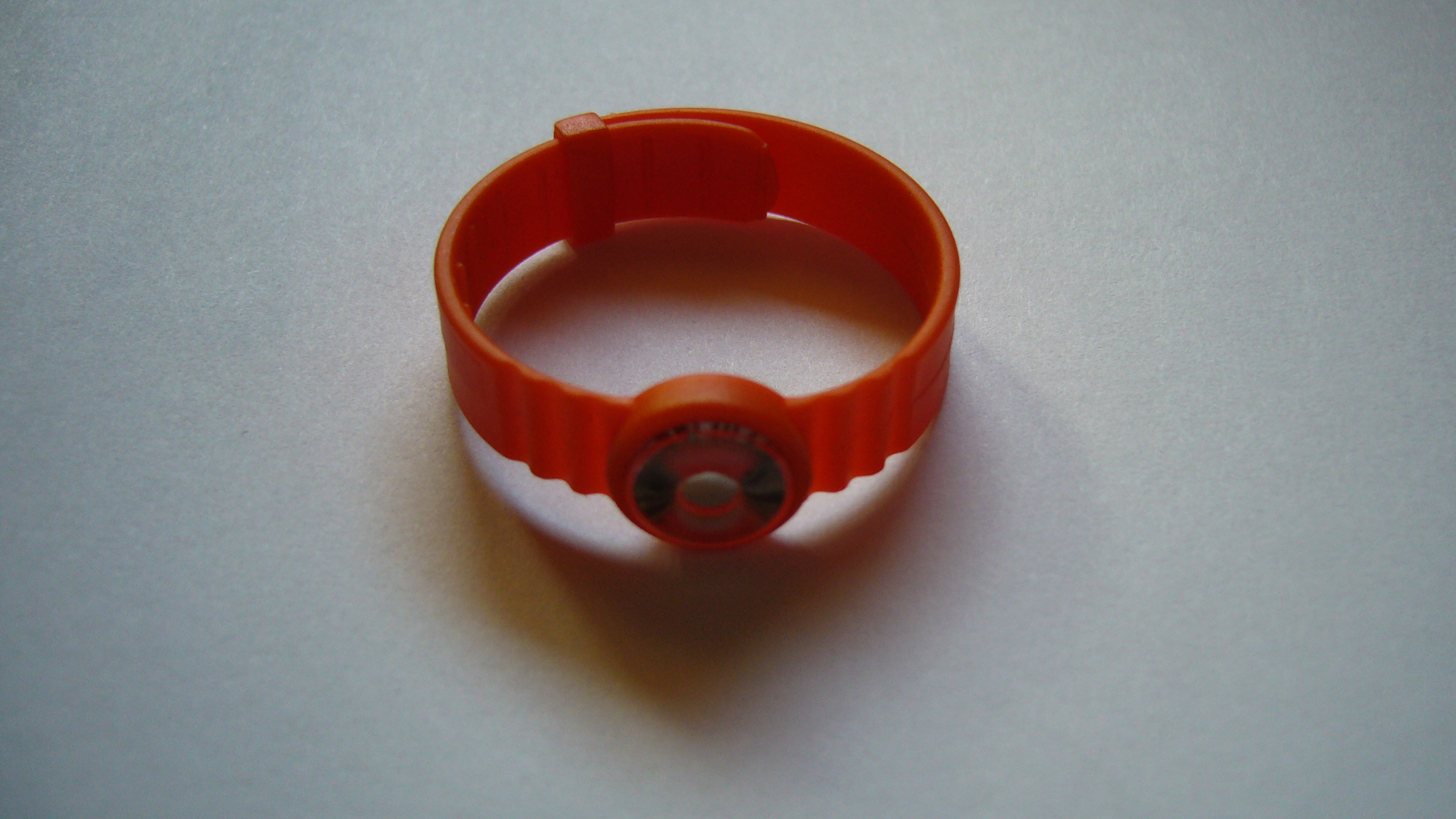 Fluorescence dosimeter ring. This type of dosimeter is used to measure radiation exposure of fingers and hands.